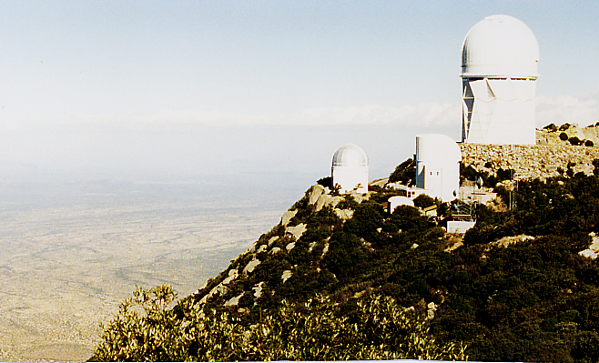 Observatory in the Sonoran Desert, Arizona, USA. Picture taken in 1990.